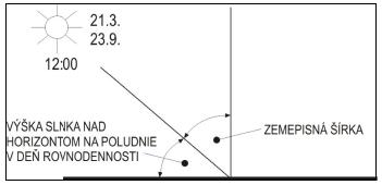 tvarové riešenie